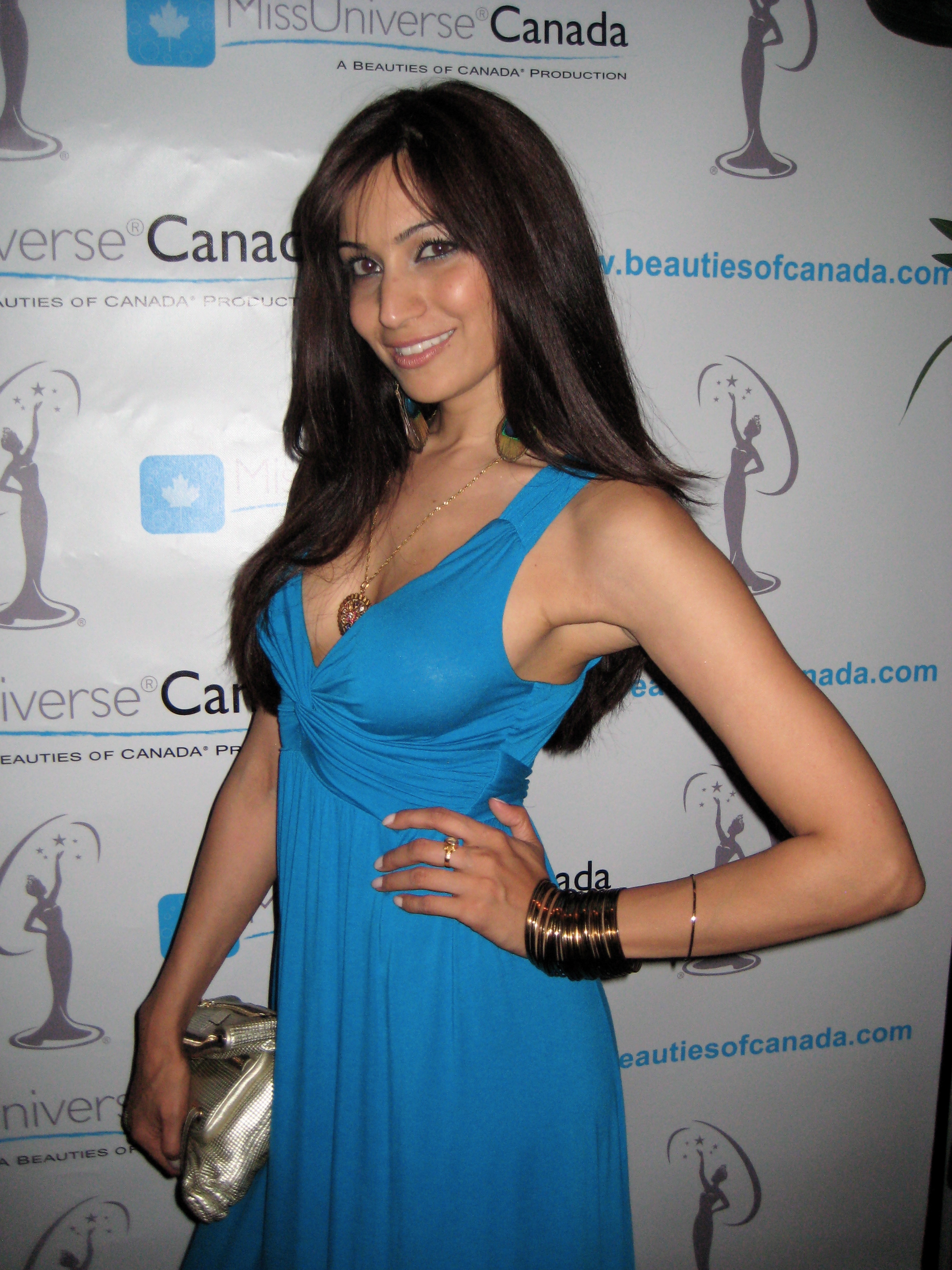 Neelam Verma at Beauty for a Cause Charity Event